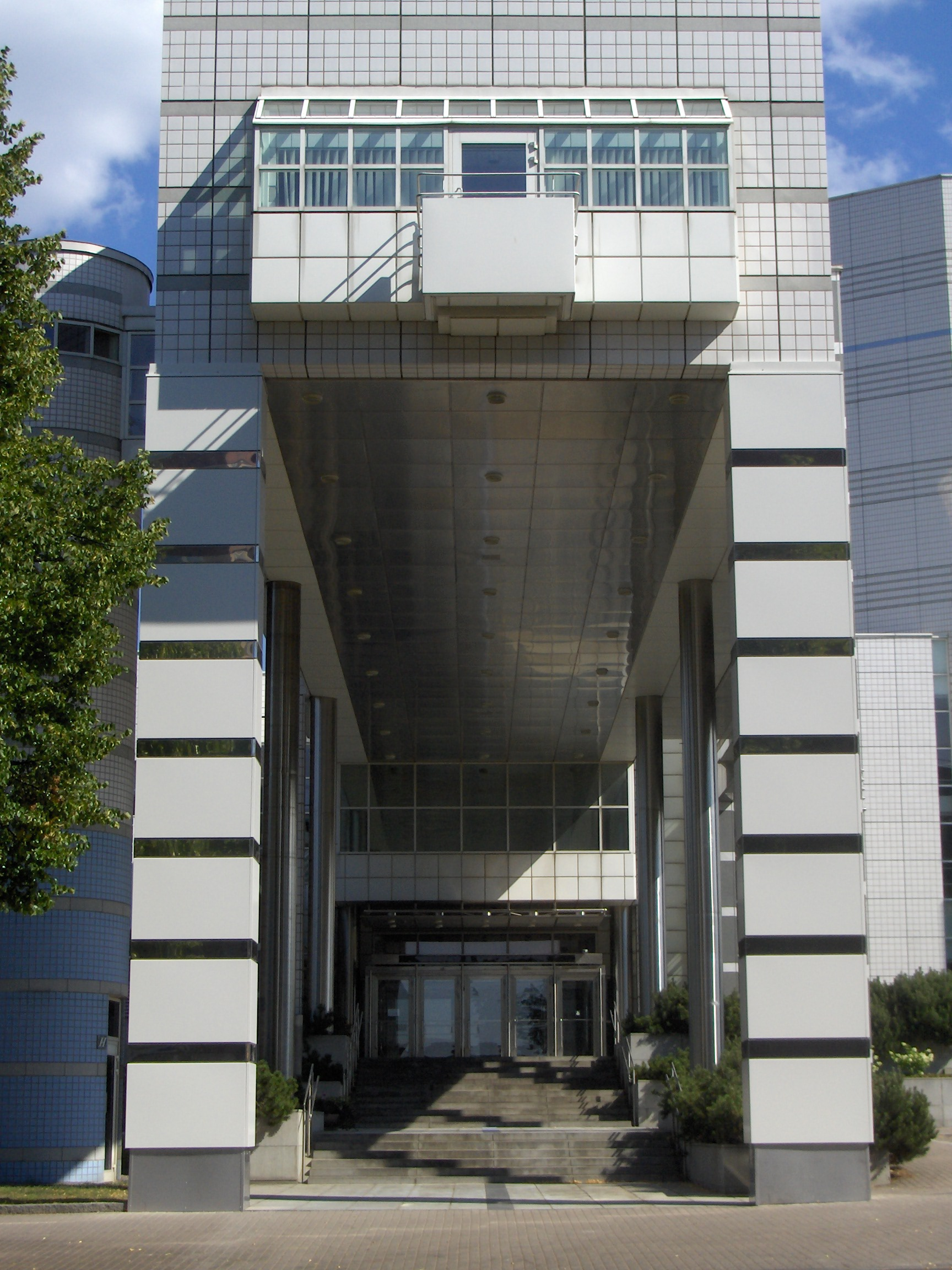 Tampere hall